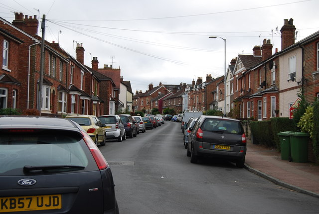 Silverdale Rd. High car ownership & no garages mean that this road has been one way since the early 1990's.